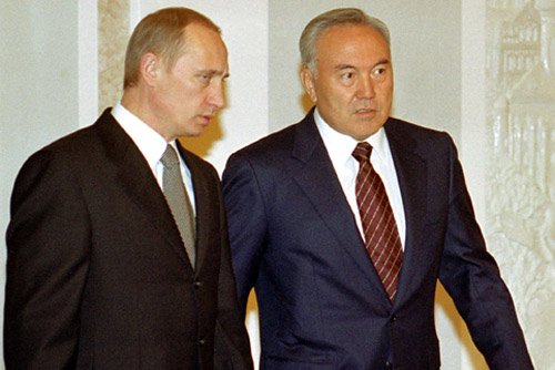 MINSK. President Vladimir Putin with Kazakh President Nursultan Nazarbayev during the first meeting of the Eurasian Economic Community.